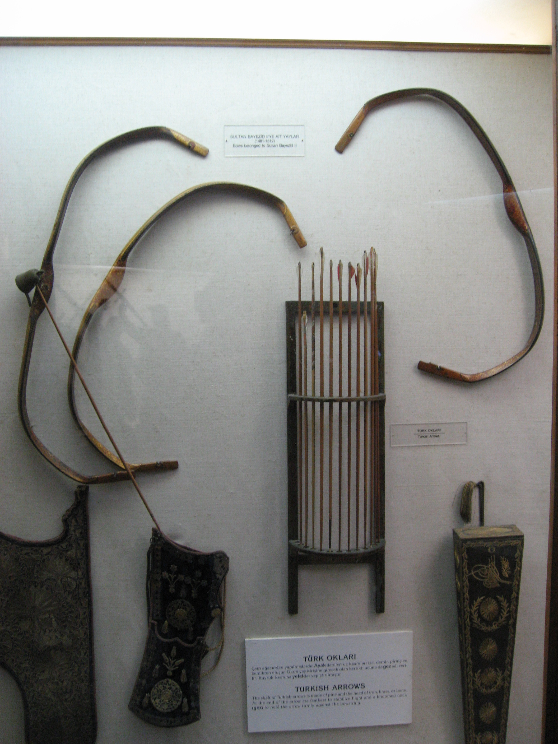 Turkish bows, which belonged to Bayezid II.